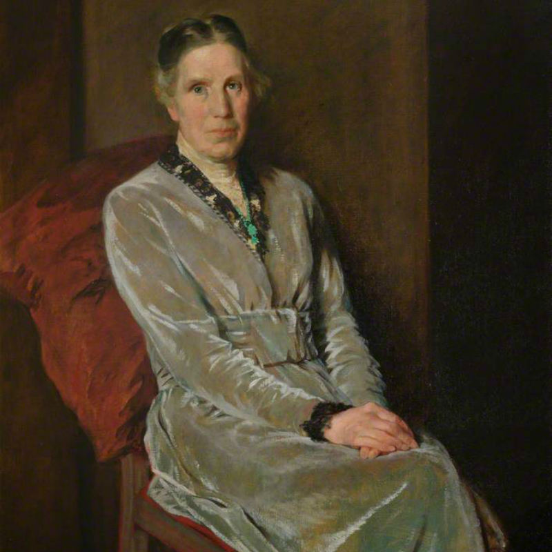 Katherine Stephen of Newnham by Glyn Philpot Newnham College, University of Cambridge; Supplied by The Public Catalogue Foundation